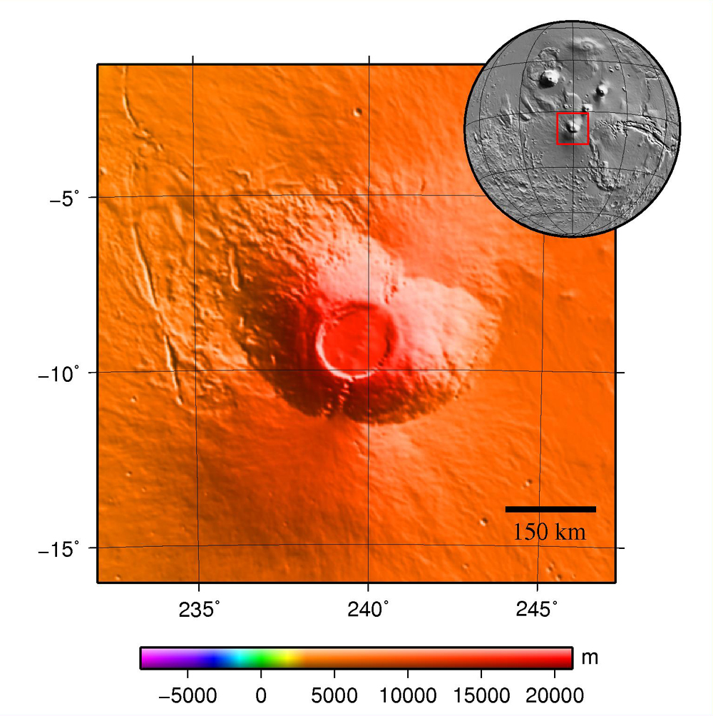 Arsia Mons (Mars) topography